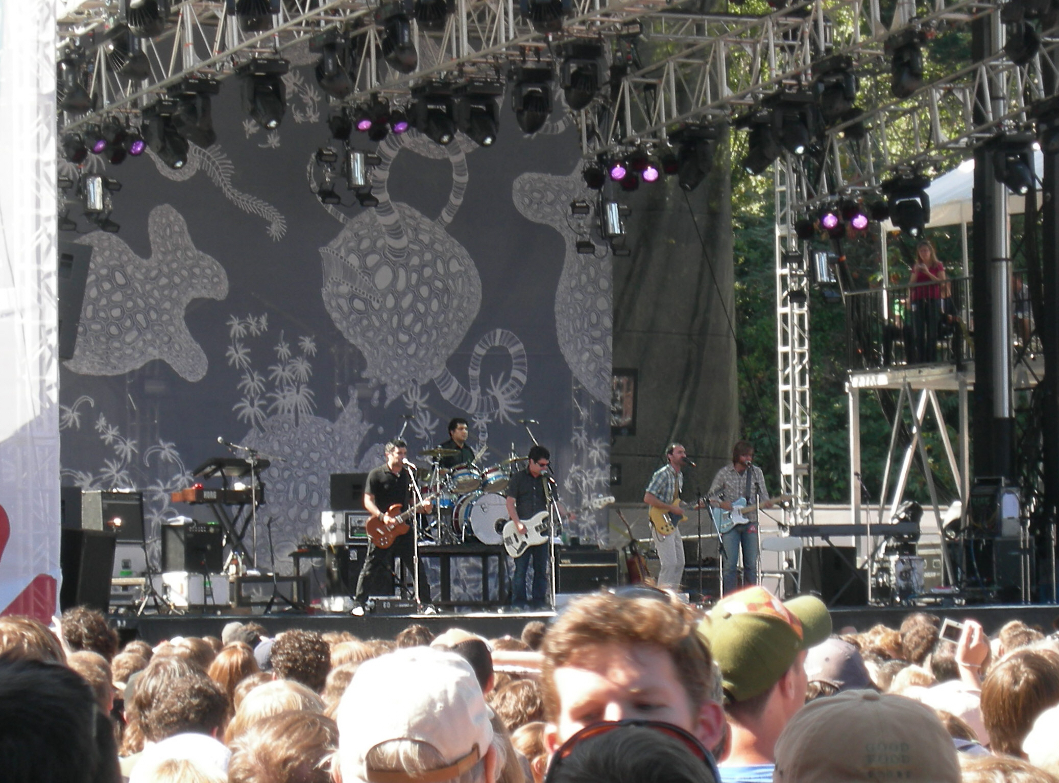 Portland, Oregon indie rock band The Shins perform at Bumbershoot, a music and arts festival held every Labor Day weekend at Seattle Center, Seattle, Washington, USA.